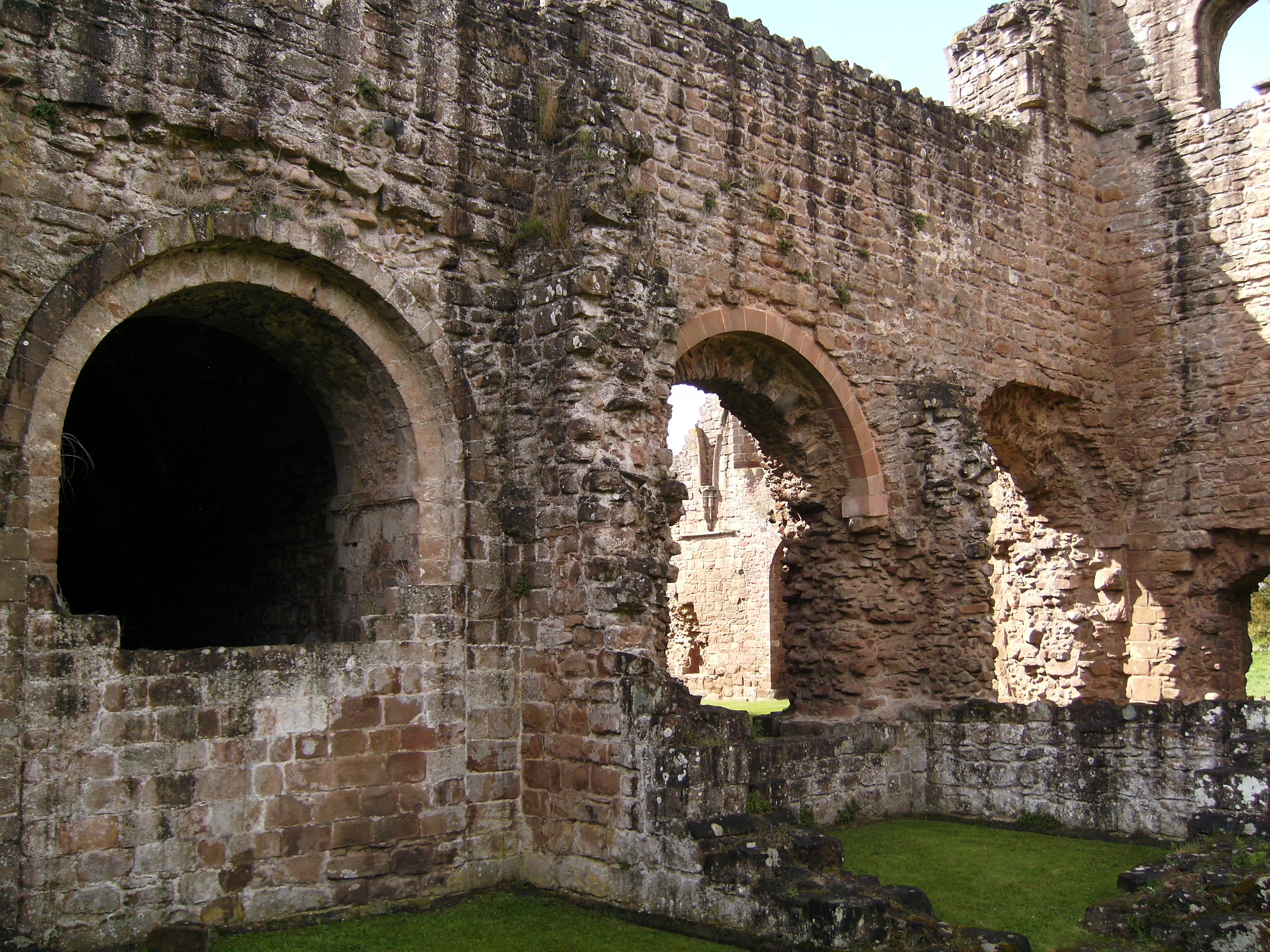 North east of the abbey church, showing interior of the chancel. Lilleshall Abbey, Lilleshall, near Telford, Shropshire.